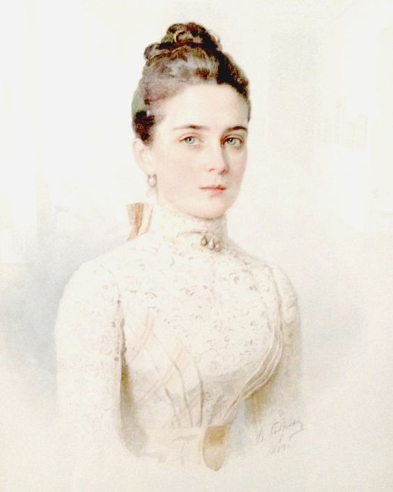 Zenaida Youssoupoff 1889 by V. Bobrov